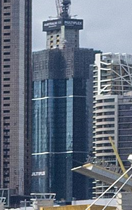 Australia 108 under construction in April 2018.